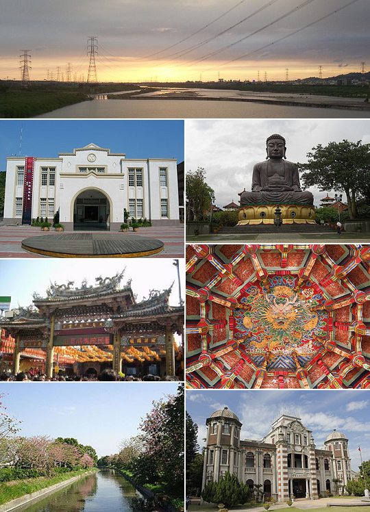 Montage of various Changhua County images.